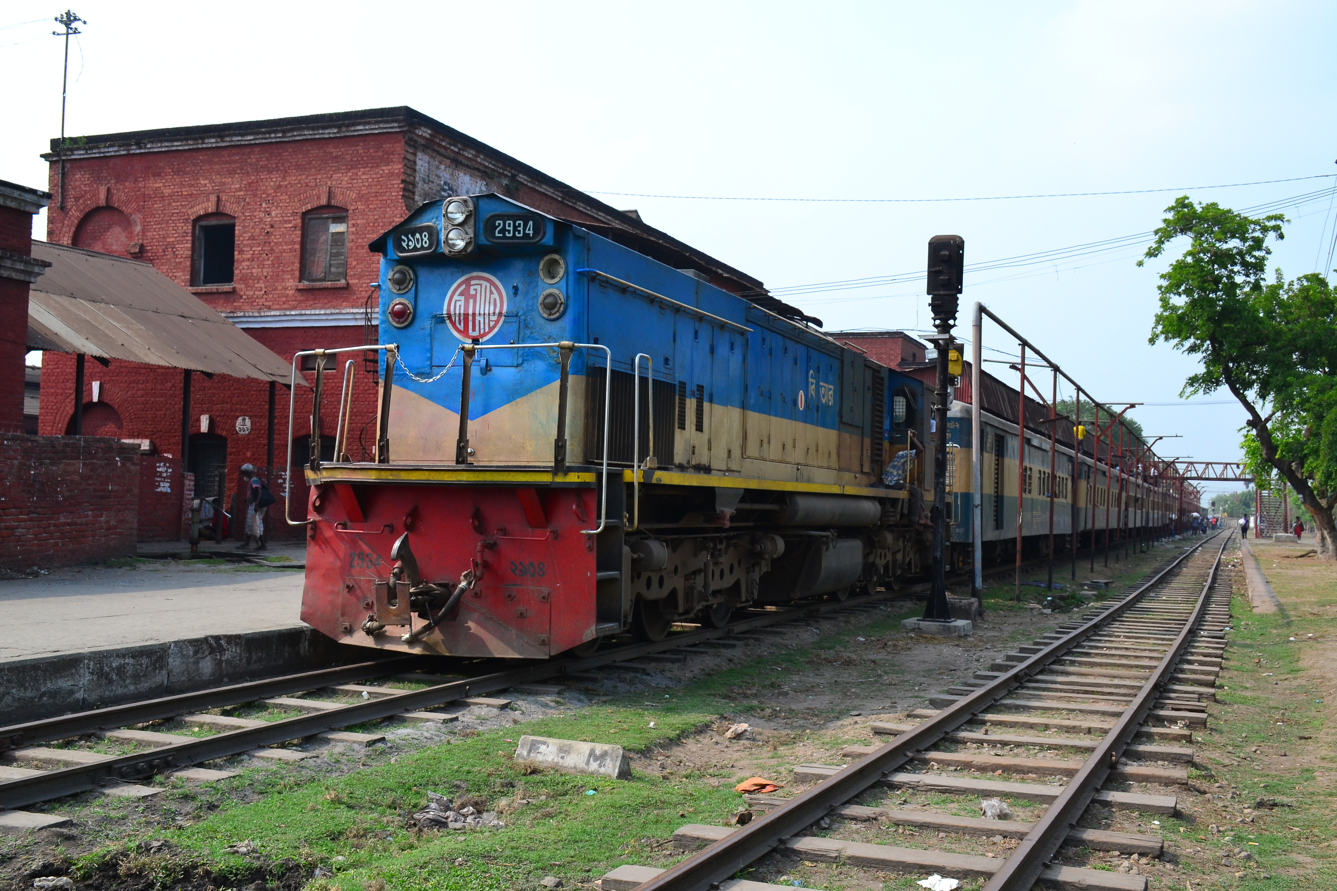 Lalmoni Express at Shantahar station